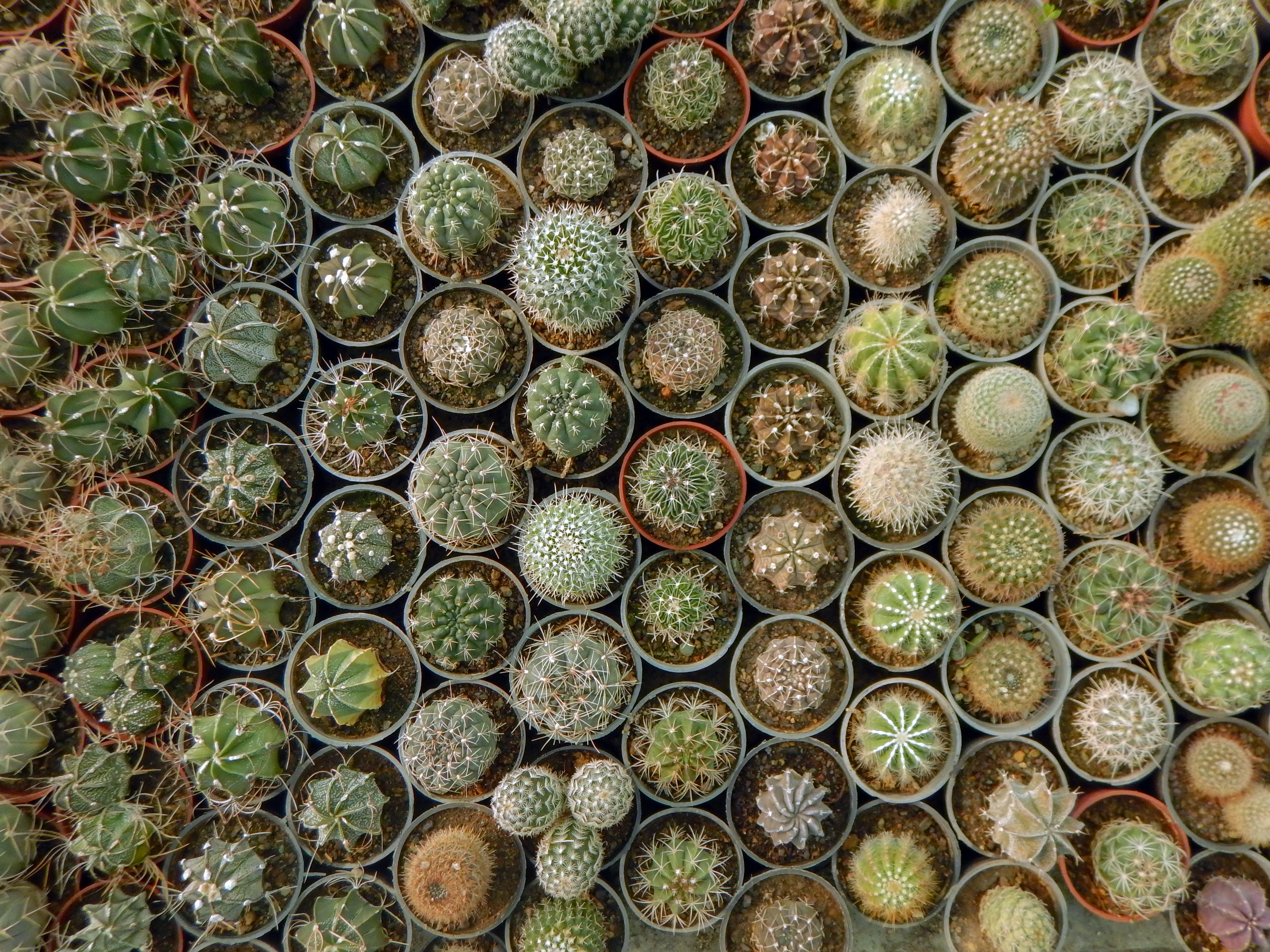 A cactus (plural: cacti, cactuses, or cactus) is a member of the plant family Cactaceae,[Note 1] a family comprising about 127 genera with some 1750 known species of the order Caryophyllales. The word "cactus" derives, through Latin, from the Ancient Greek κάκτος, kaktos, a name originally used by Theophrastus for a spiny plant whose identity is not certain. Bân-lâm-gú: Sian-jîn-chióng (-chiúⁿ/-chháu, sian-pa-chiúⁿ/-chióng , hoé-hāng-chhì ) sī ha̍k-miâ hō Cactaceae ê to-bah si̍t-bu̍t (succulent plant), sù-siông chèng lâi khoàⁿ súi, m̄-koh ia̍h ū lâi chia̍h--ê. Sian-jîn-chióng sī te̍k-sû, kî-khá ê si̍t-bu̍t, te̍k-pia̍t sek-èng hui-siông ta-sò, sio-lo̍h ê khoân-kéng.